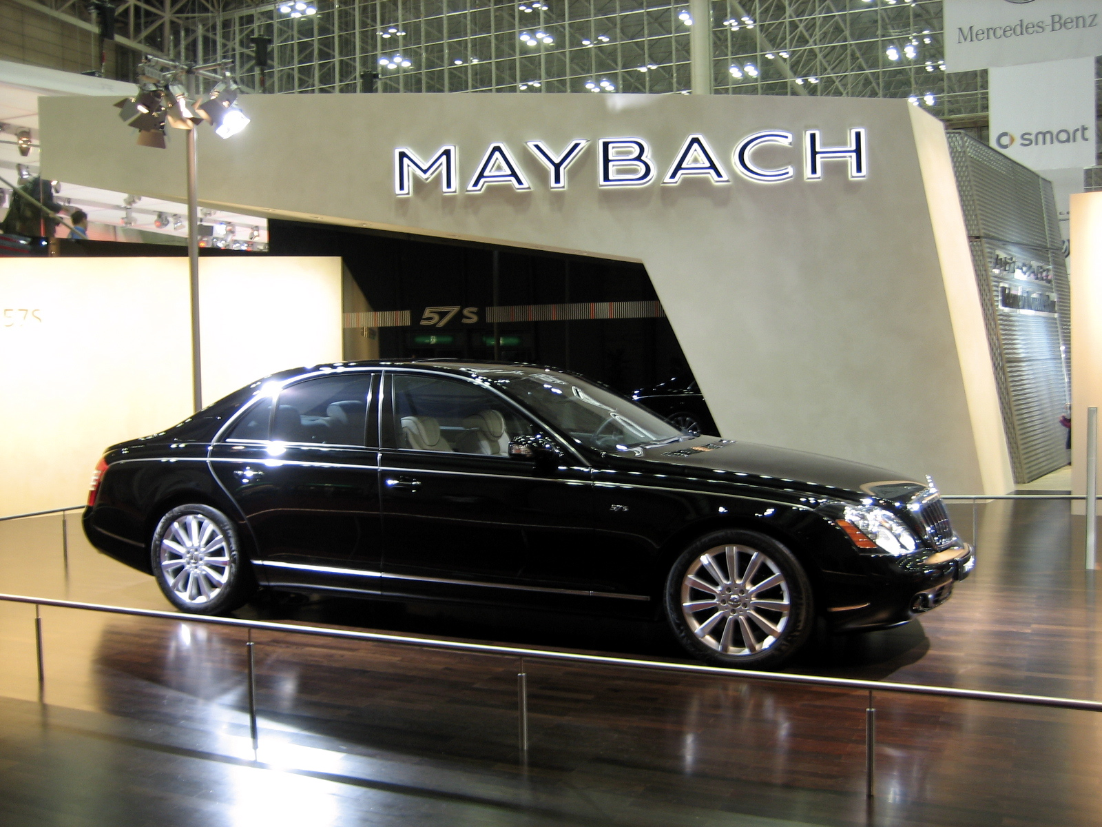 Maybach 57S